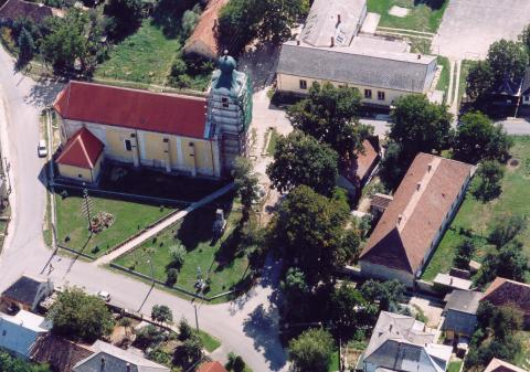 Városlőd, Hungary, aerialphotgraphy